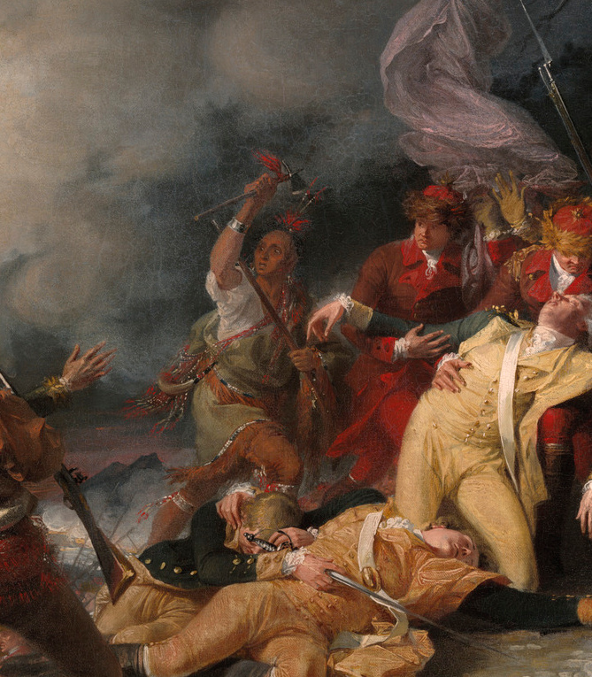 Detail of Joseph Louis Cook from The Death of General Montgomery in the Attack on Quebec, December 31, 1775 by John Trumbull